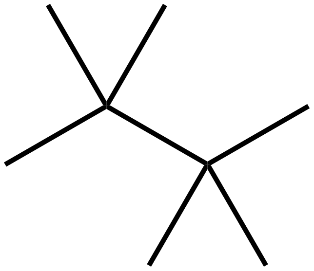 chemical structure of tetramethylbutane